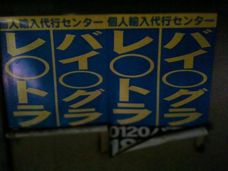 It is a four-character idioms of fiscal 2011, Tokyo University entrance examination, the expected problem! University of Tokyo pass without doubt you even if you know this! ○ Gras means Viagra. ○ Le tiger means Levitra.